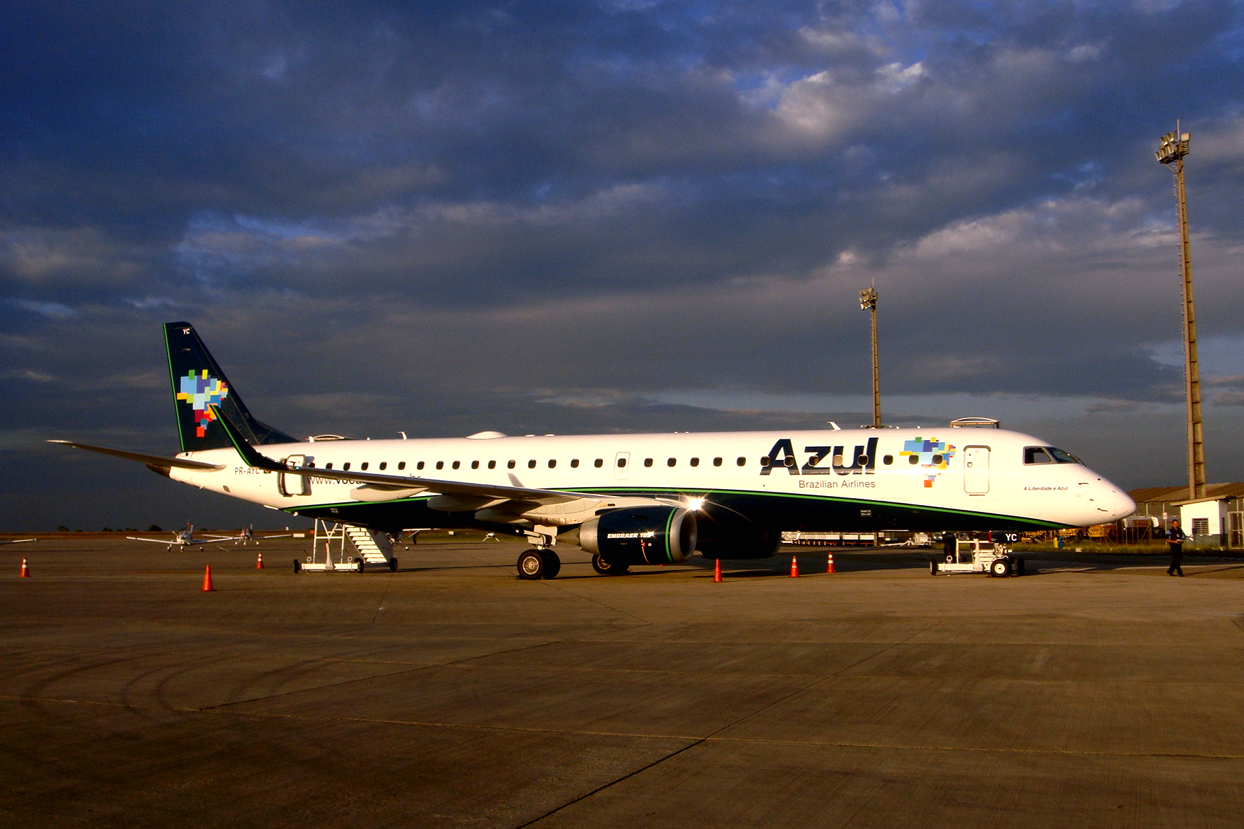 Azul Embraer 195 at Viracopos-Campinas International Airport, Brazil